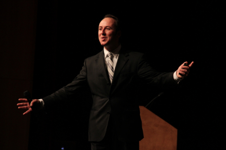 Kostya Kimlat delivers his "Think Like a Magician" keynote to a business audience.